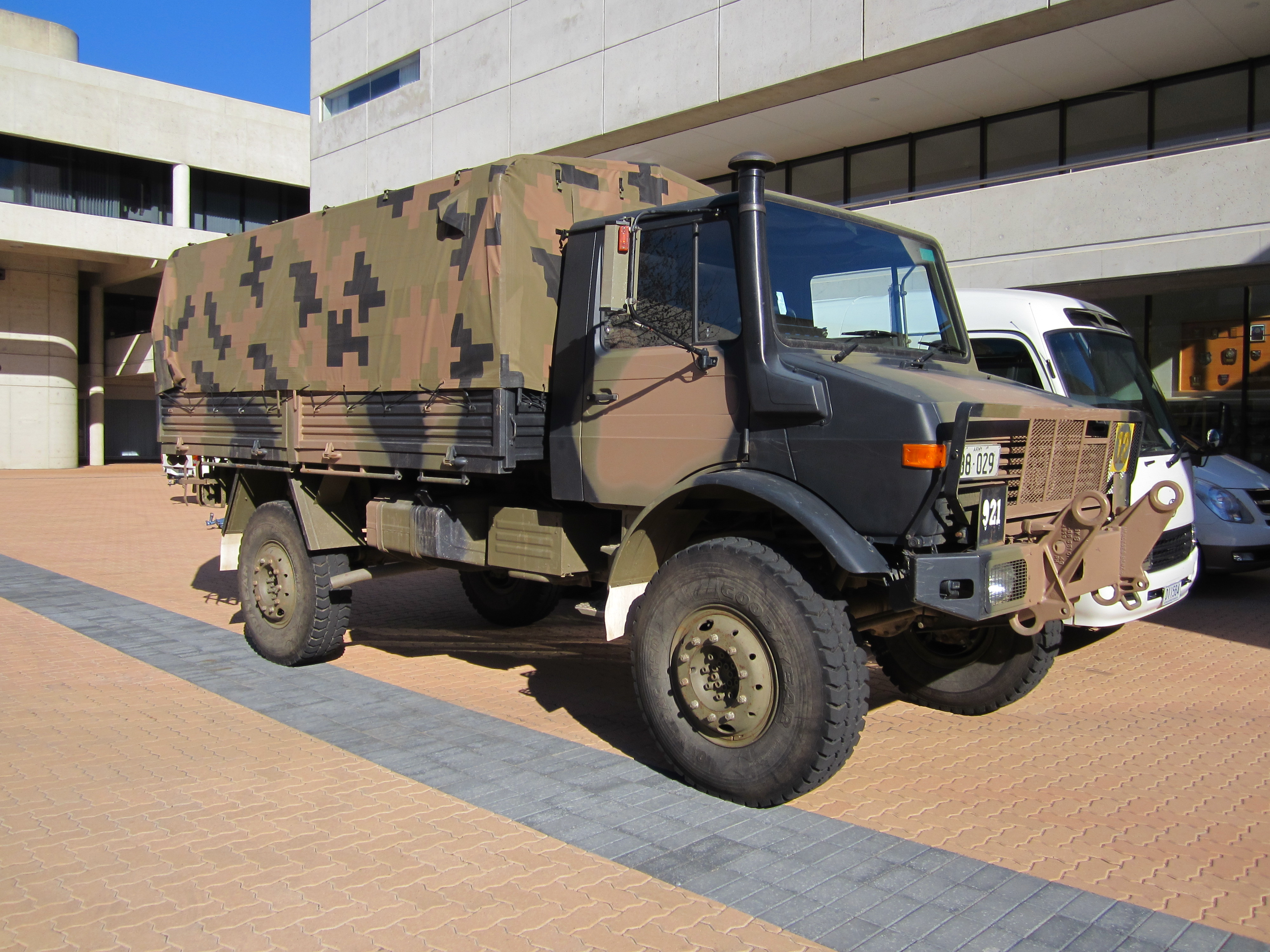 An Australian Army Unimog truck with a digital camouflage pattern over its cargo space at the Australian Defence Force Academy